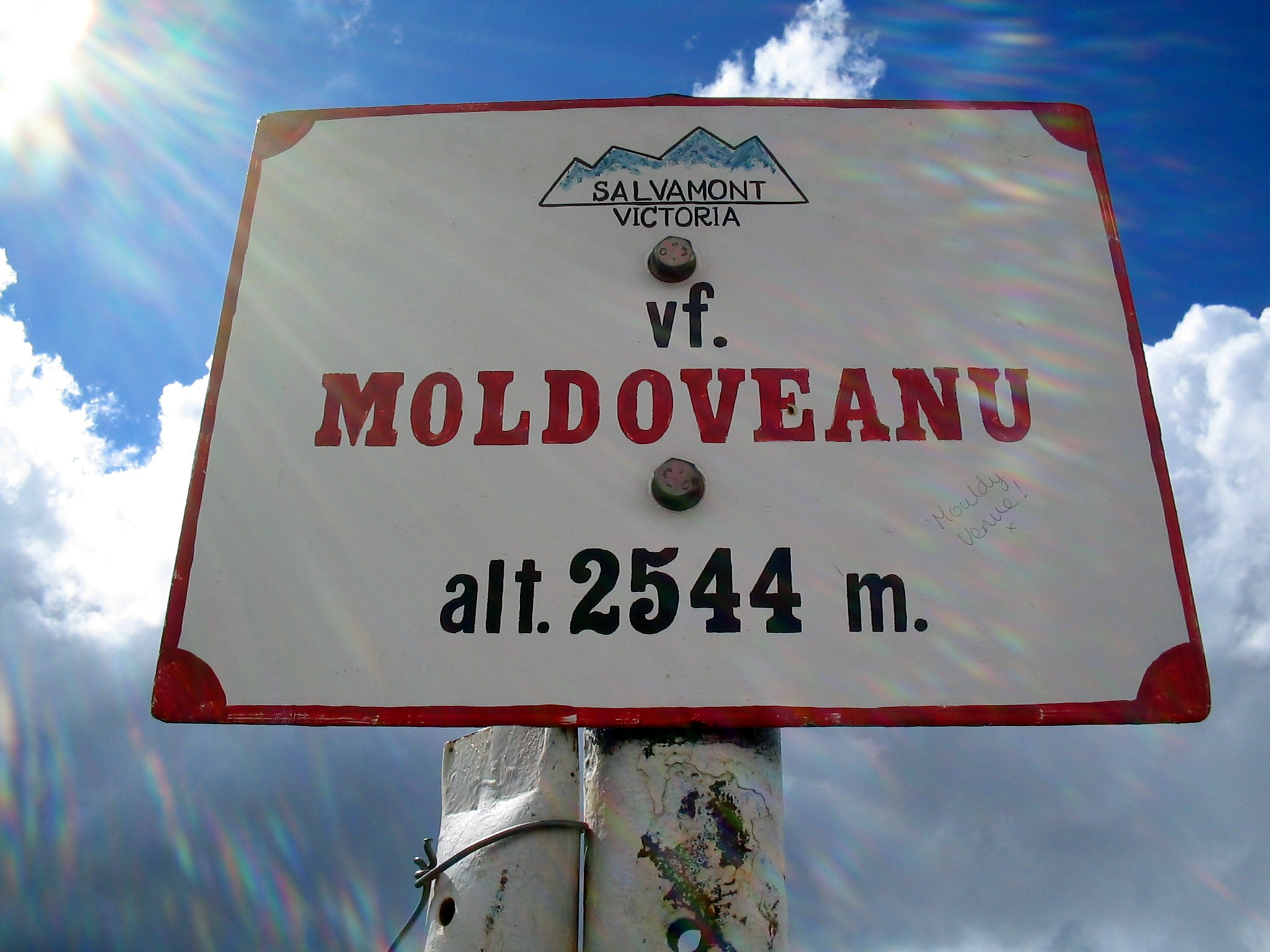 Marker on the top of Moldoveanu Peak, Romania (the highest mountain in the country)